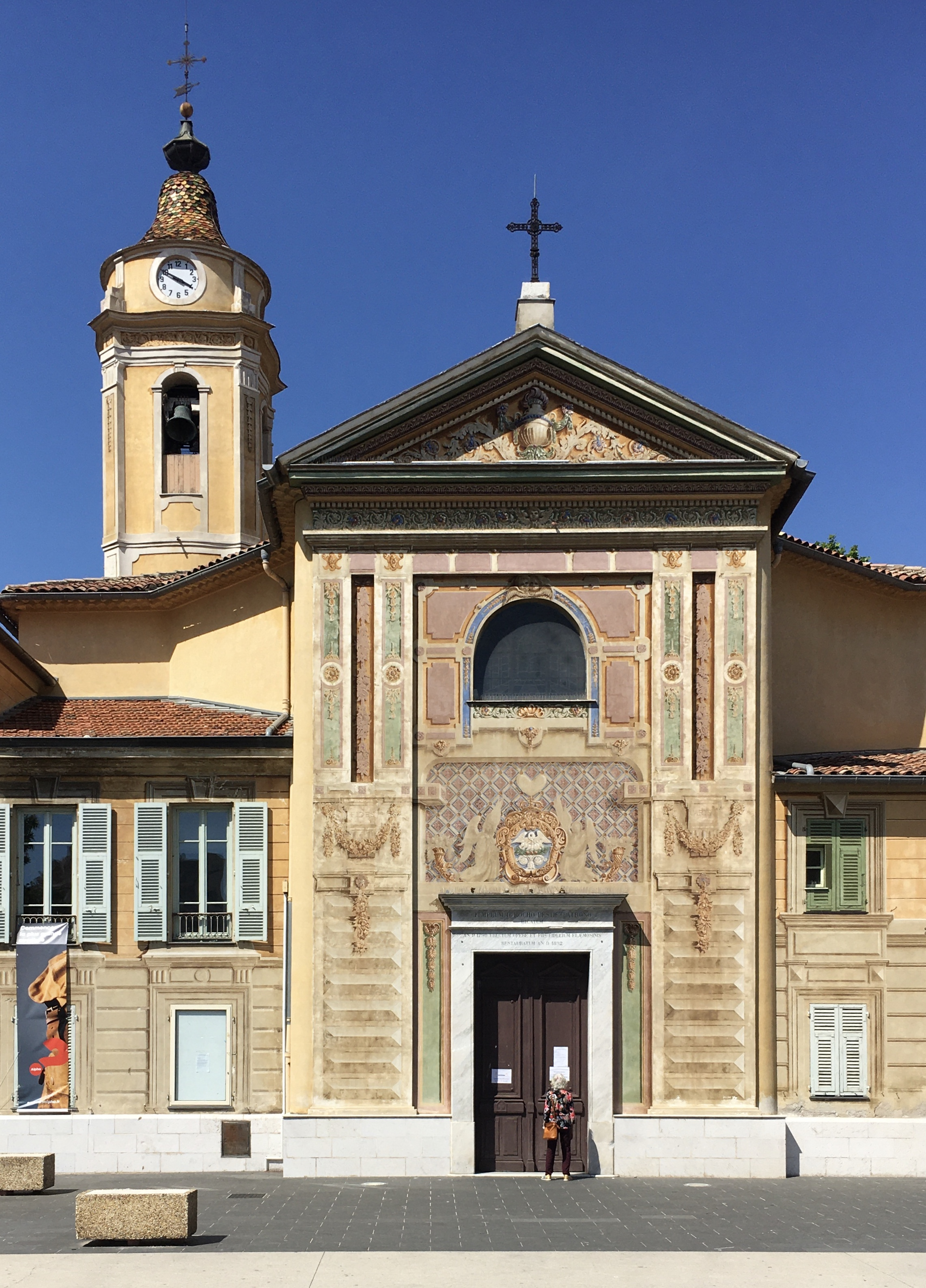 Saint Roch church in Nice, France